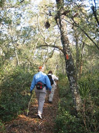 Hiking on the Florida Trail in Big Cypress National Preserve, Florida. Photographer: Sandra Friend (myself), Communications Coordinator with the Florida Trail Association, author and photographer ( Copyright holder: Sandra Friend